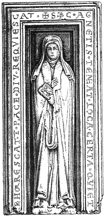 Tombstone of the abbess of Quedlinburg Agnes II. of Meissen